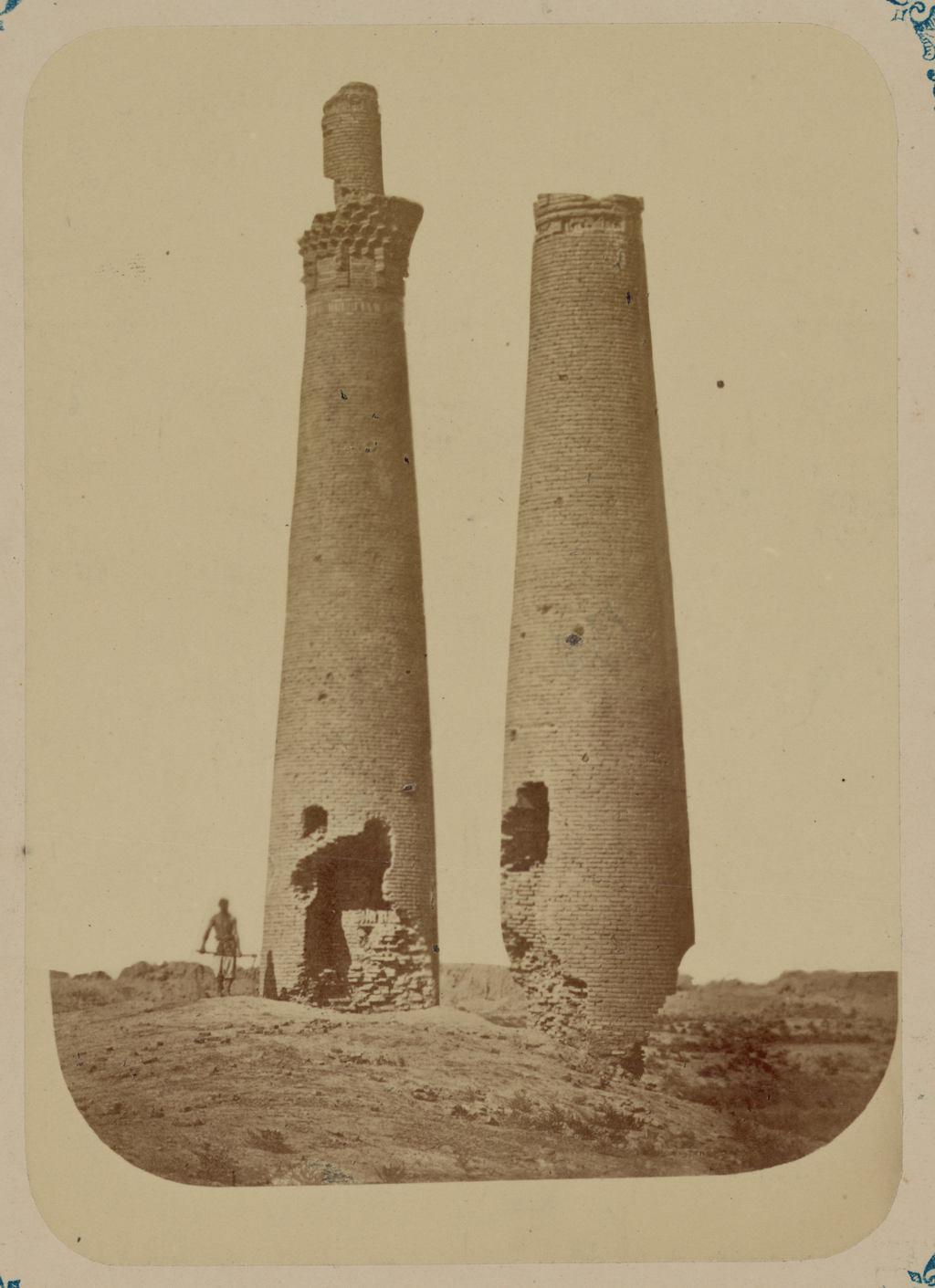 This photograph of ruins from the city of Sauran, located in the southern part of present-day Kazakhstan, is from the archeological part of Turkestan Album. The six-volume photographic survey was produced in 1871-72 under the patronage of General Konstantin P. von Kaufman, the first governor-general (1867-82) of Turkestan, as the Russian Empire’s Central Asian territories were called. The caption notes that the photograph was taken in 1866, which predates the photography undertaken specifically for the album. Sauran (also known as Savran) was some 40 kilometers from the city of Yasi (present-day Turkestan, Kazakhstan), and was reputed to be an important point on the Silk Road. In the 14th century it became the capital of the regional Ak Orda (White Horde), and at the time was known for its ceramic tile production. (Ak means “white” and, in the traditional Turkic naming of cardinal compass points, corresponds to “south”; the other cardinal directions are Kok, meaning “blue” or “east”; Qizil, “red” or “west"; and Qara, “black” or “north.”) The brick minarets on hilly terrain in the photograph show signs of major damage, but they remain standing. The tower on the right in particular seems without a sufficient base. The exterior wall of the tower is in fact a shell that encloses a spiraling stairway, and the core of the tower is still relatively intact. The left tower still has its superstructure, visible above the flared stalactite culmination of the main shaft. The figure on the left gives a sense of the scale of the towers. Archaeological sites; Islamic architecture; Photographic surveys; Ruins